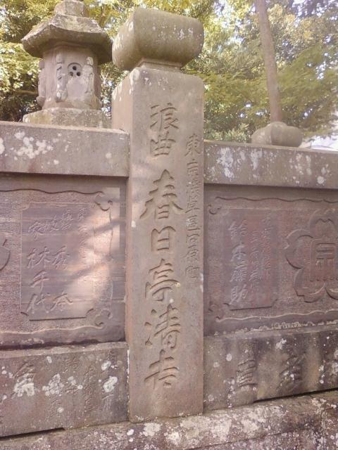 A stone part which 春日亭清吉 (1878 - 1942) donated for the fences of 東勝寺 (成田市)